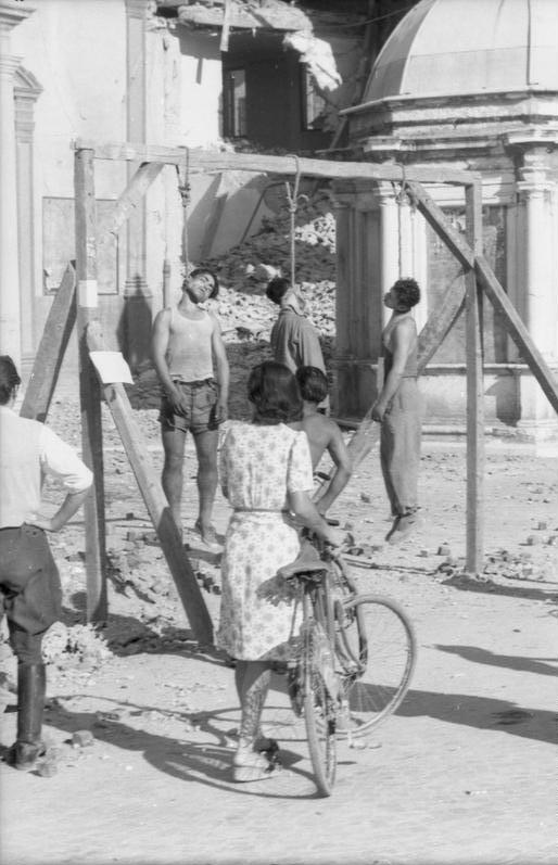 Information added by Wikimedia users.*